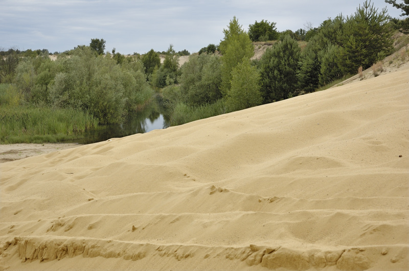 VVP Záhorie, sand dunes at Bežnisko (Natura 2000 locality SKUEV0172)